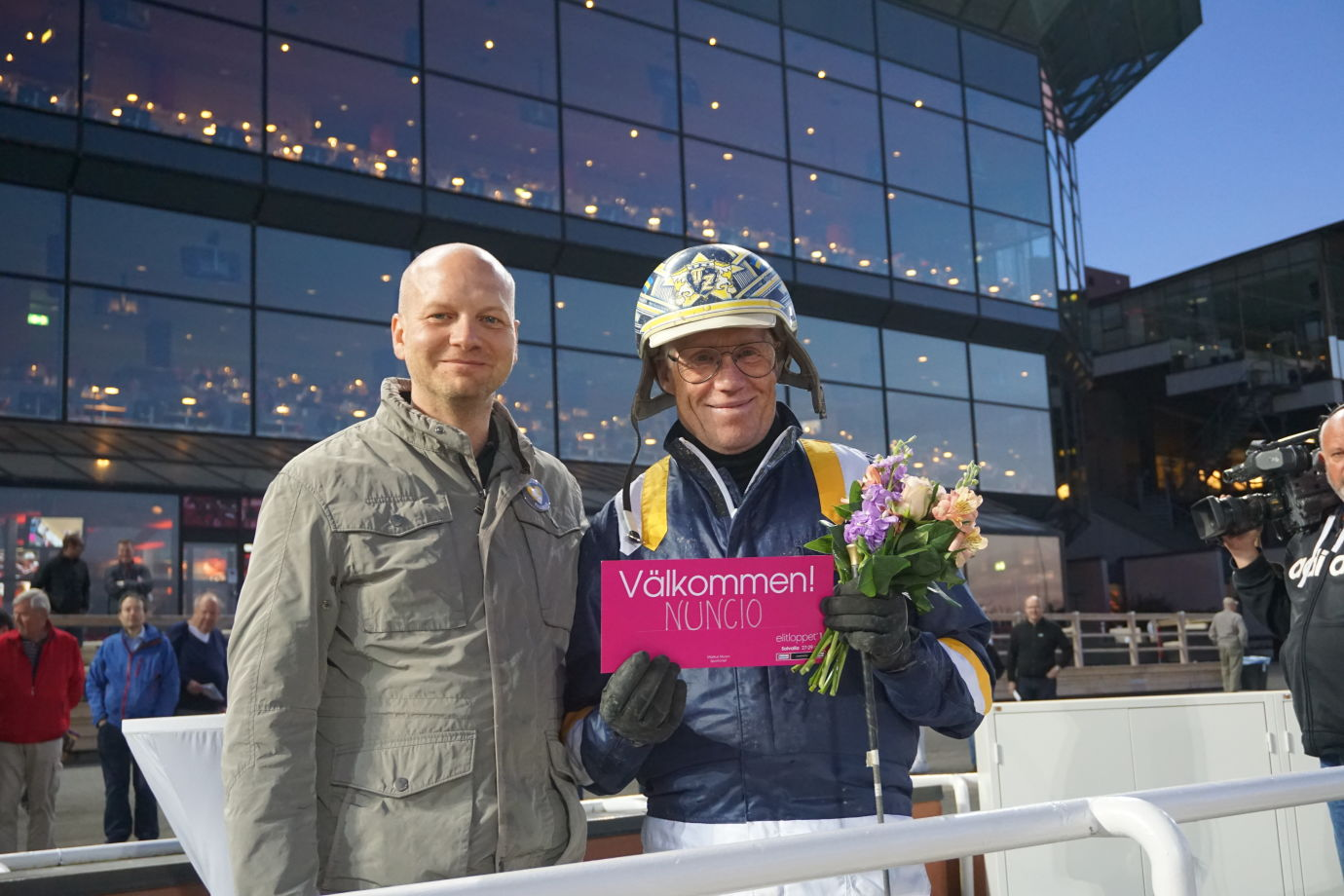 Markus Myron and Stefan Melander 2016